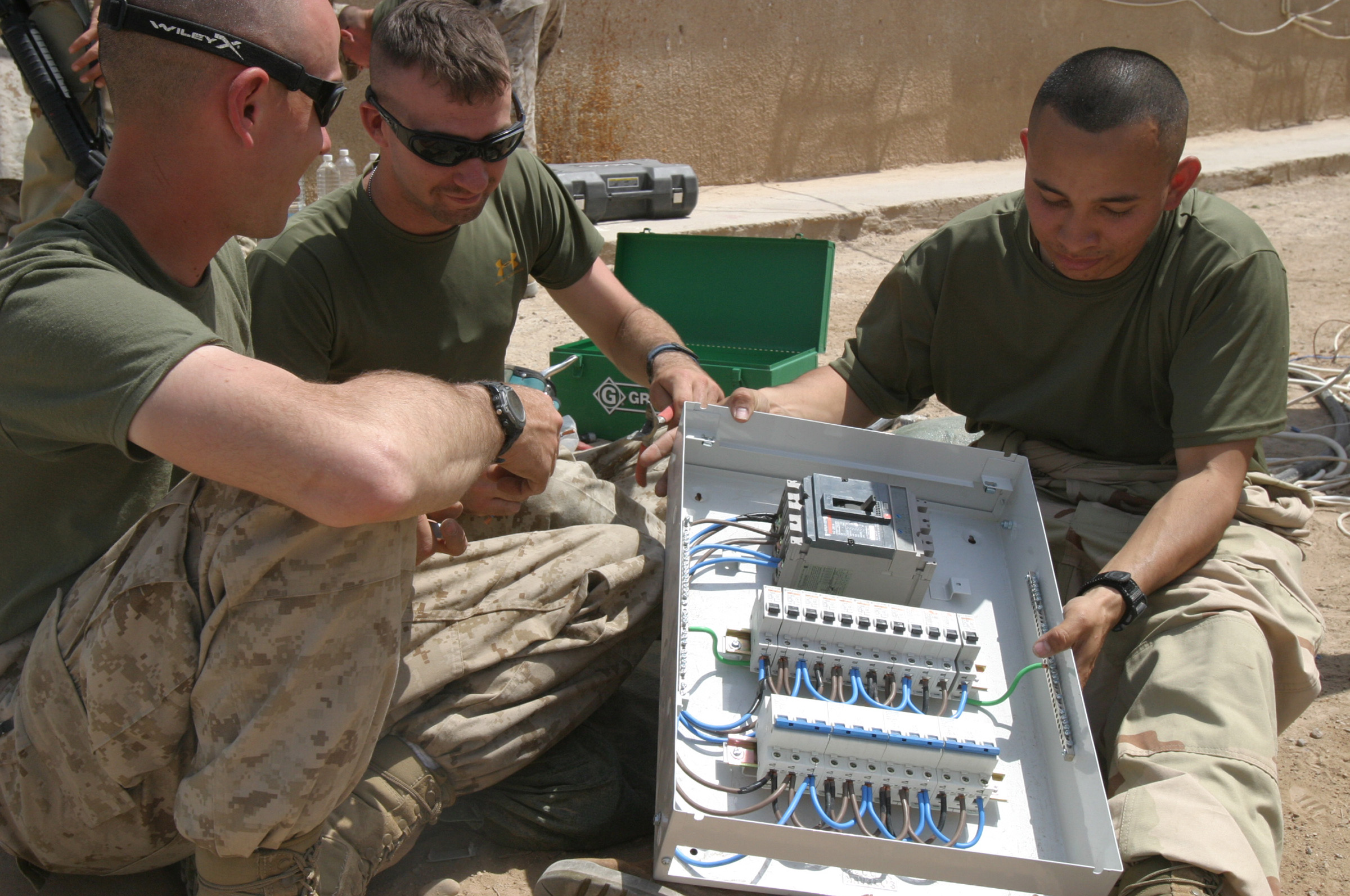 Electricians attached to II MEF Headquarters Group, II Marine Expeditionary Force (Forward) work on an panel box at Camp Fallujah. Lance Cpls. Nathan A. Newport, Michael J. Greif, and Alvaro R. Asencio-Alonzo are reservists from 4th Combat Engineer Battalion of Baltimore, Md. and will be deployed for 12 months.